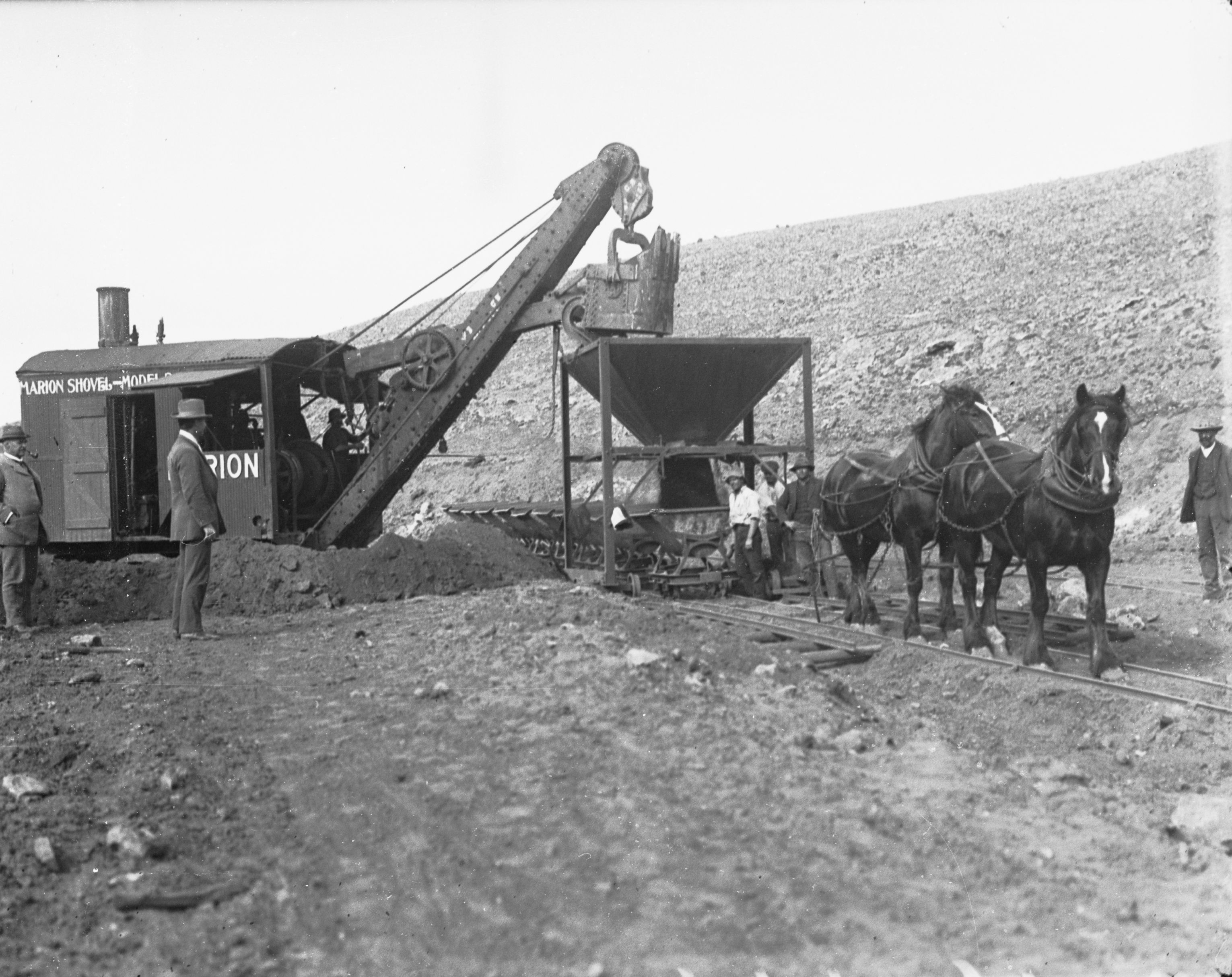 Marion steam shovel excavating at Pompoota Flat. Machine imported Sep 1913 by Irrigation & Reclamation Works Dept at cost of 1960 pounds. October 1913.